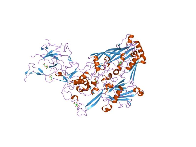 Cartoon representation of the molecular structure of protein registered with 1p2z code.